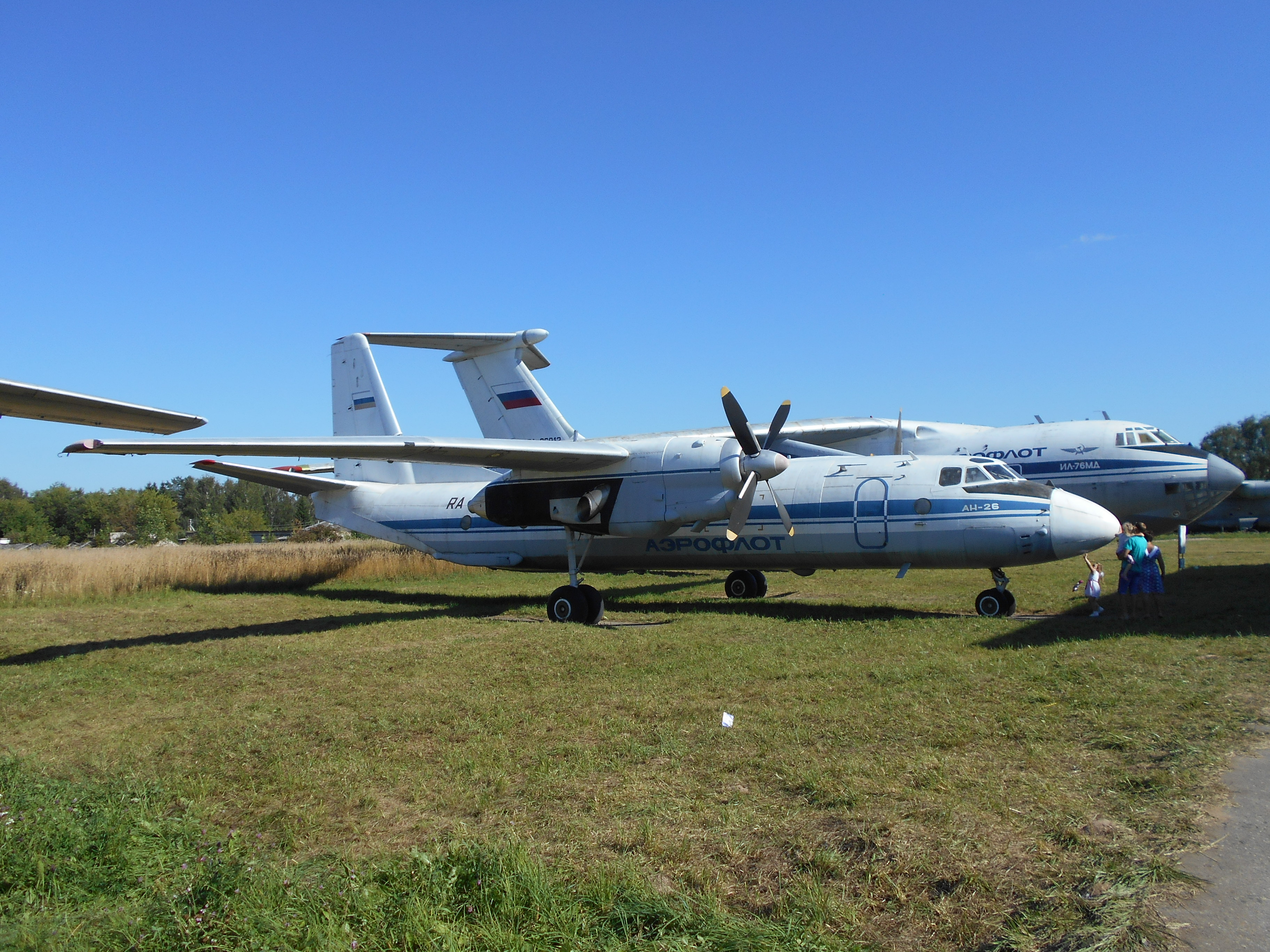 Antonov An-26.